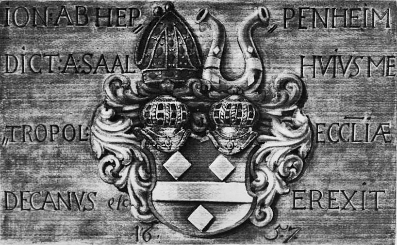 Wappenstein des Domdekans Johann von Heppenheim genannt vom Saal (1609-1672), Barbara Kapelle, Mainzer Dom